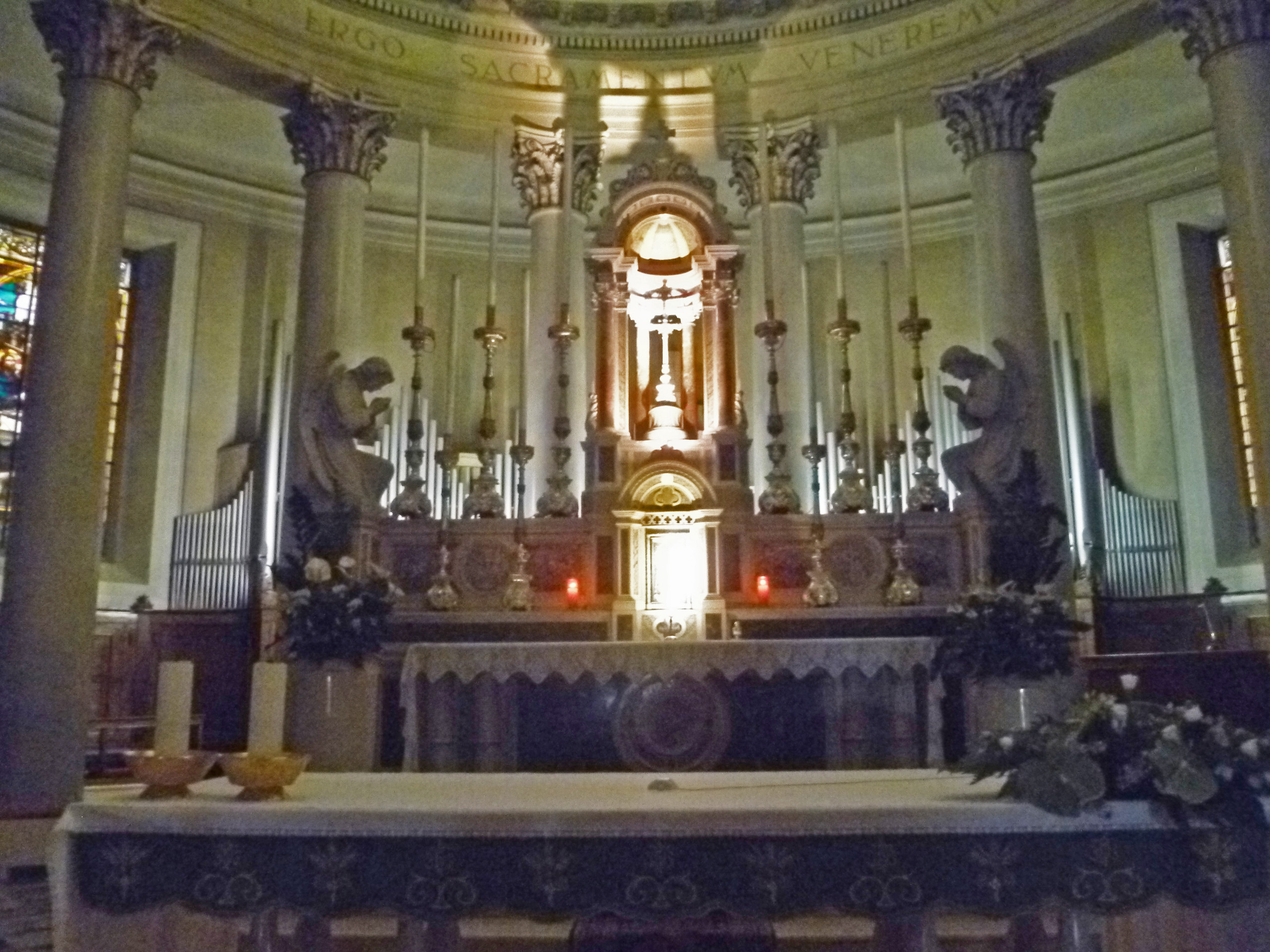 Main altar of the Church of S. Nicolò e S. Severo, Bardolino, Italy